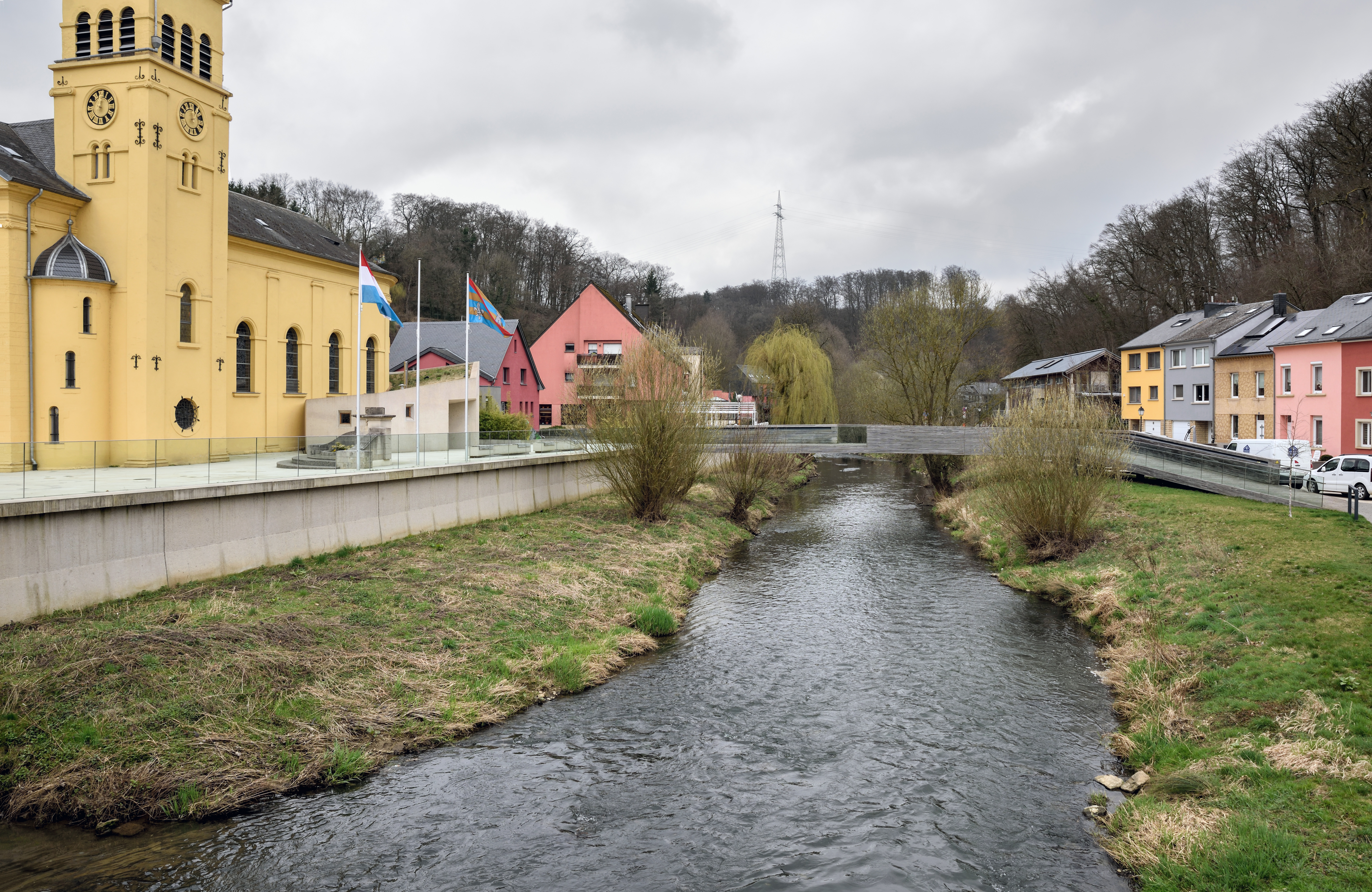 The Alzette river – downstreams – in Hesperange, Luxembourg.